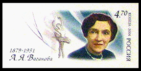 Stamp of Russia 125 years from the date of a birth of ballerina A.Vaganova, 2004